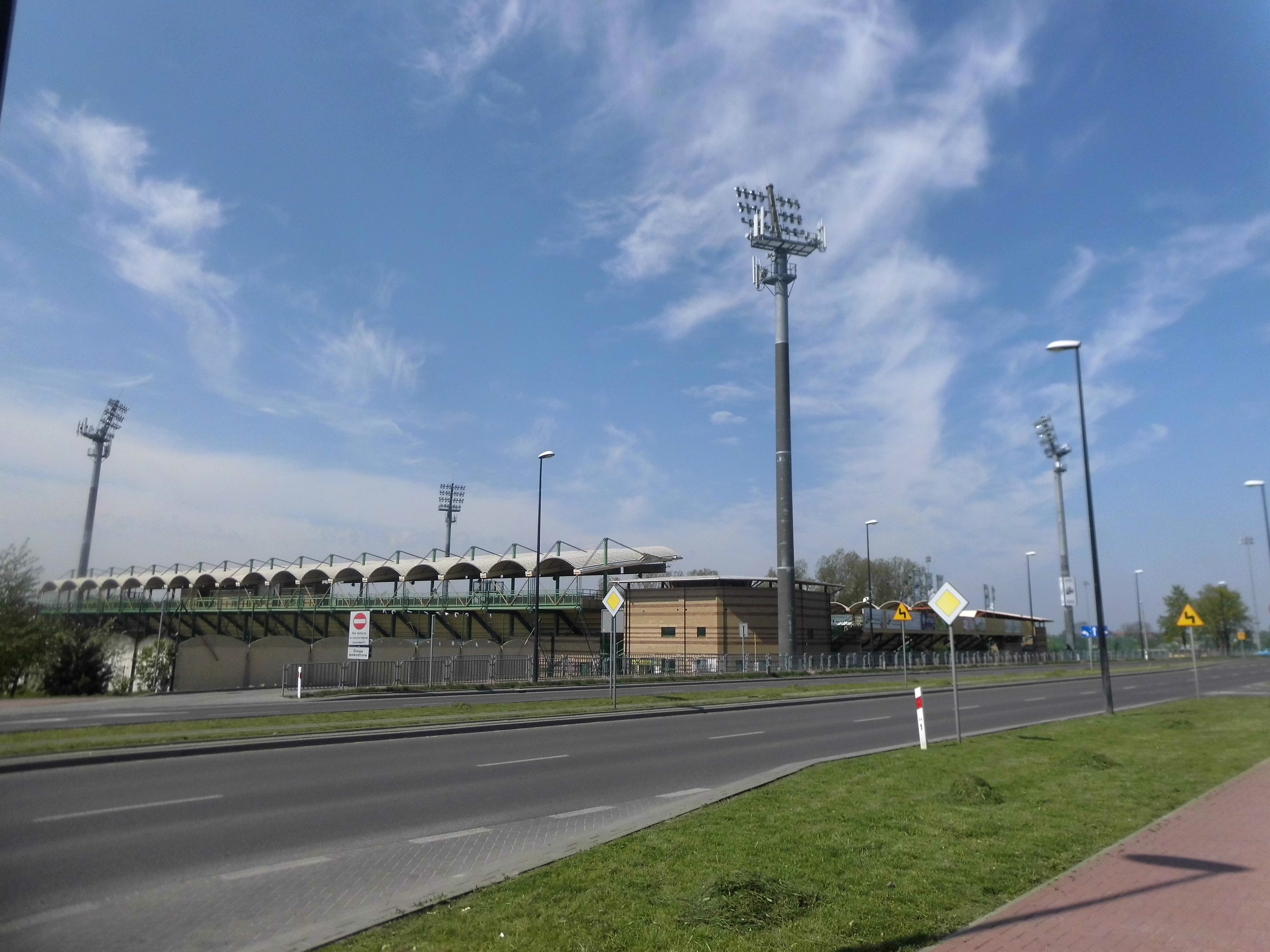 Stadion Górnika Łęczna